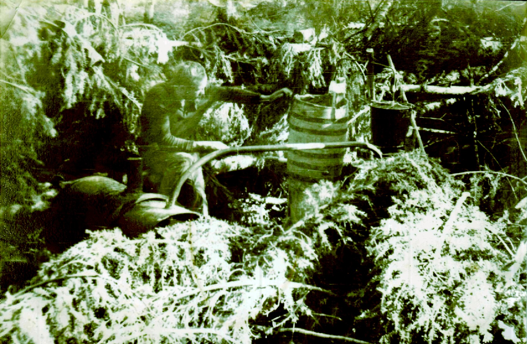 Enormous apparatus for moonshine in the forest near the village Poykovskyy, Khanty-Mansi Autonomous Okrug of Russia device. 1970